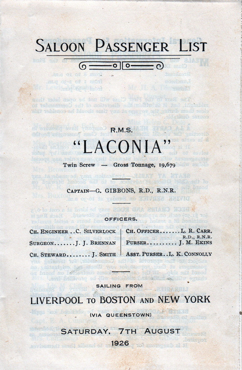 Saloon Passenger List title page, R.M.S. "Laconia" , August 7, 1926